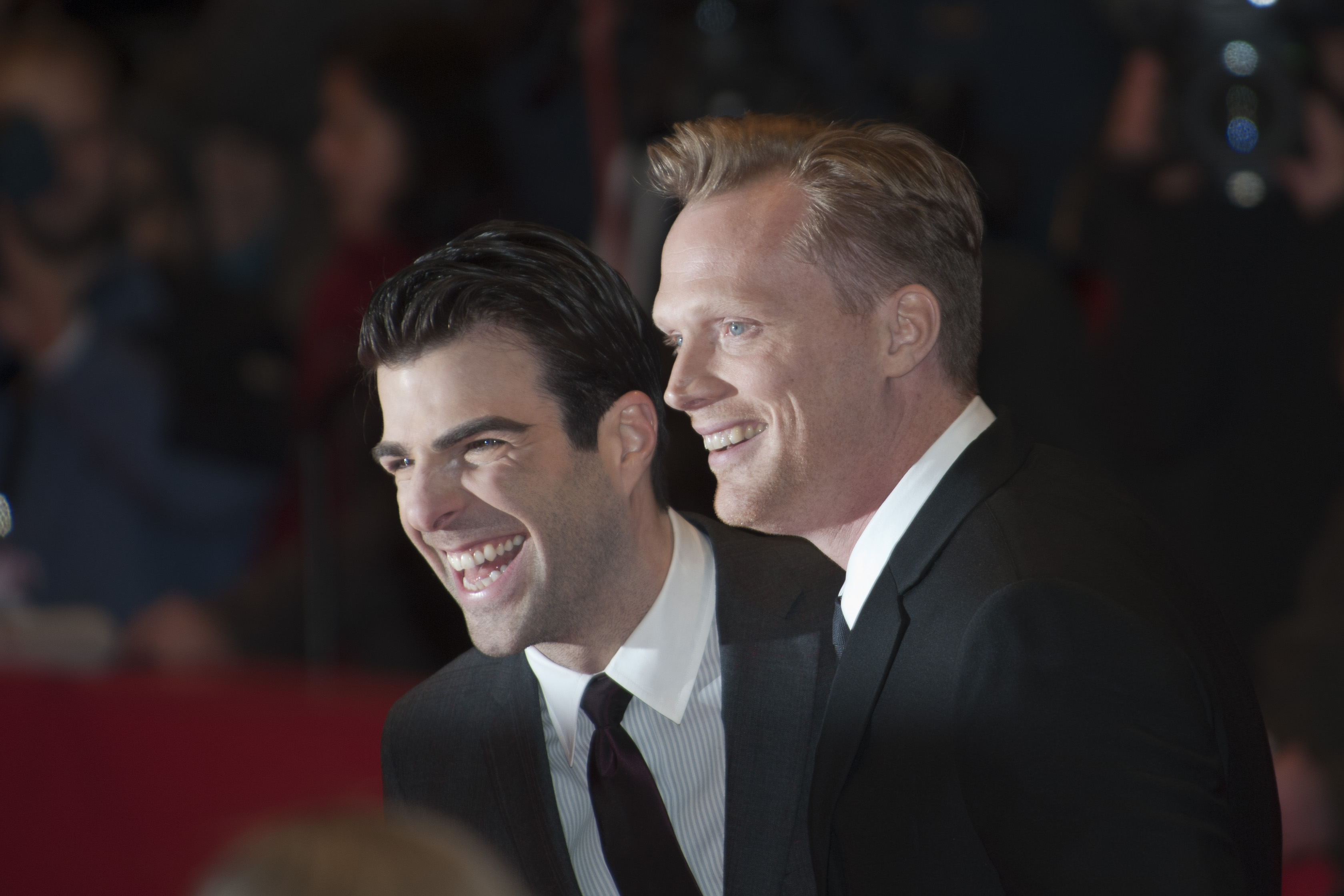 Zachary Quinto and Paul Bettany are presenting their new movie Margin Call at the Berlin Film Festival 2011